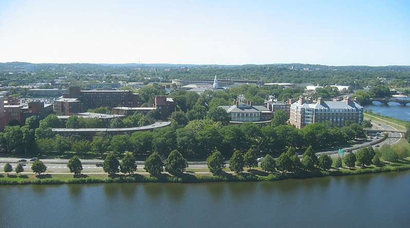 Harvard Business School, as seen from across the Charles River. In the background is the steeple of Baker Library.